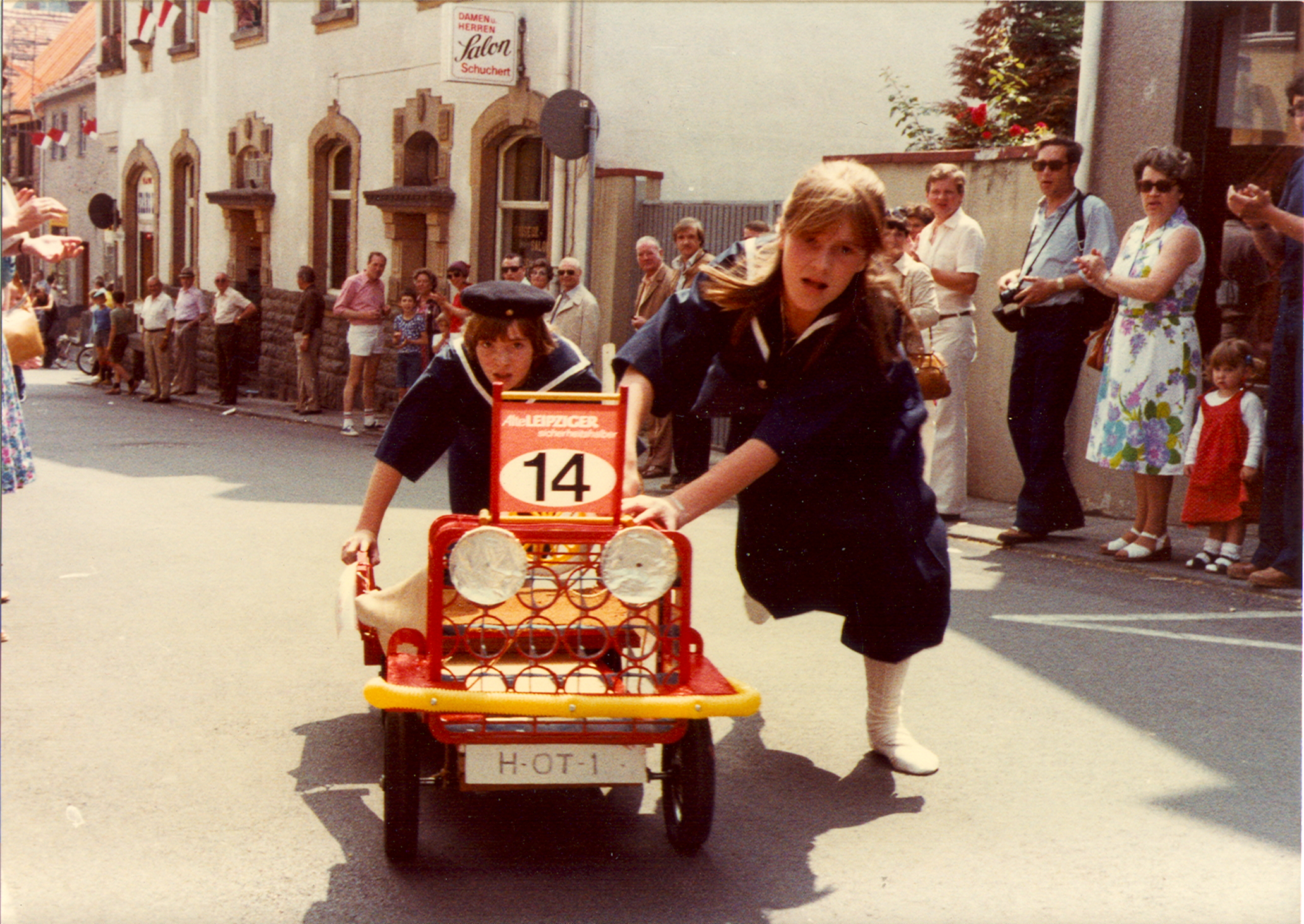 Kids Race June 1979 in Oberursel. Dagmar and Samantha Wynn of Kronberg push their cart out of the Strackgasse to the market place.